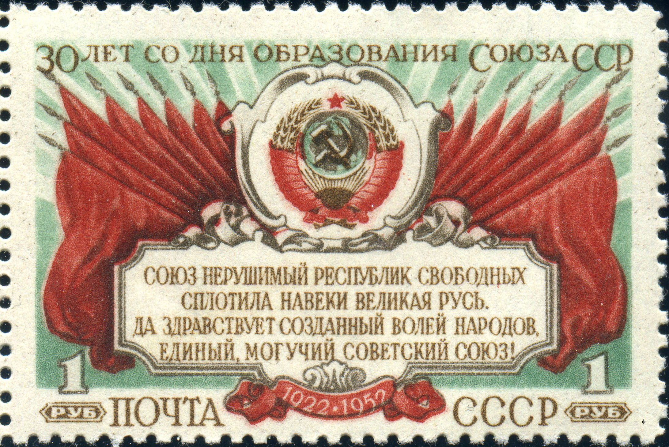 USSR postage stamp of 1952, USSR coat of arms with flags of Soviet republics on the background. CPA No. 1715